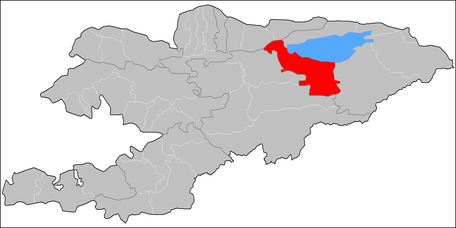 The location of the raion (district) of Tong in Kyrgyzstan. Based on Image:Kyrgyzstan raions.png